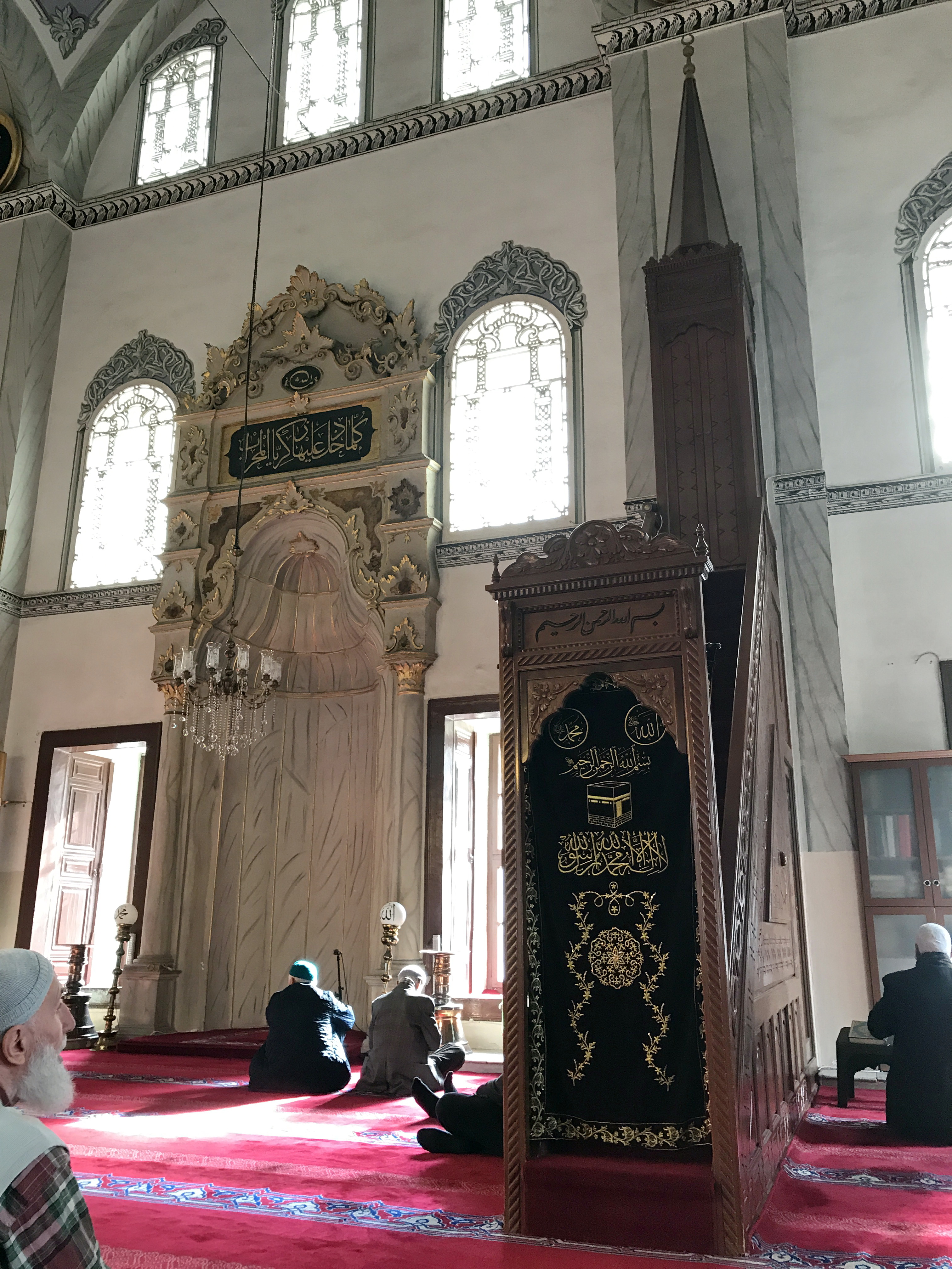 Emir Sultan Mosque in Bursa, Turkey.